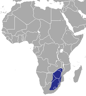 Eastern Rock Elephant Shrew (Elephantulus myurus) range